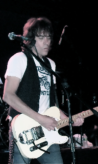 Jody Porter. NYC. August 2011.